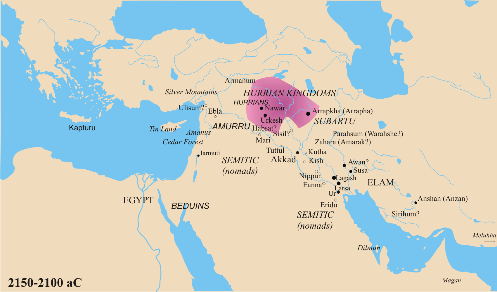 Hurrite kingdoms c. 2100 BC